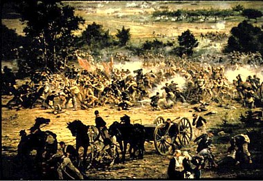 Detail of the 1883 cyclorama painting The Battle of Gettysburg, "The High Water Mark at Gettysburg"